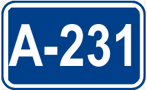 Diagram of motorway sign of Spain